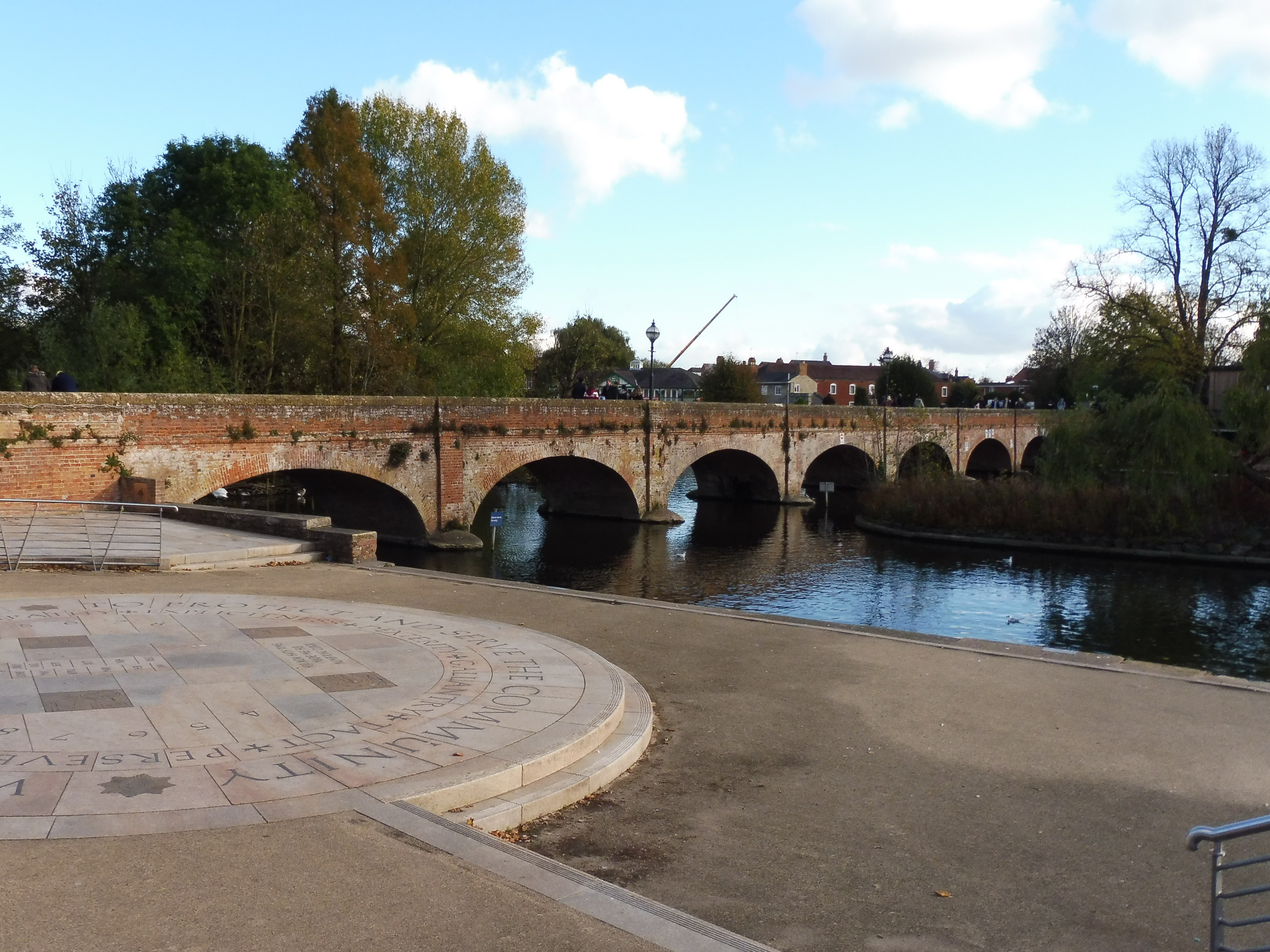 Built 1823 by John Rastrick, today used by pedestrians